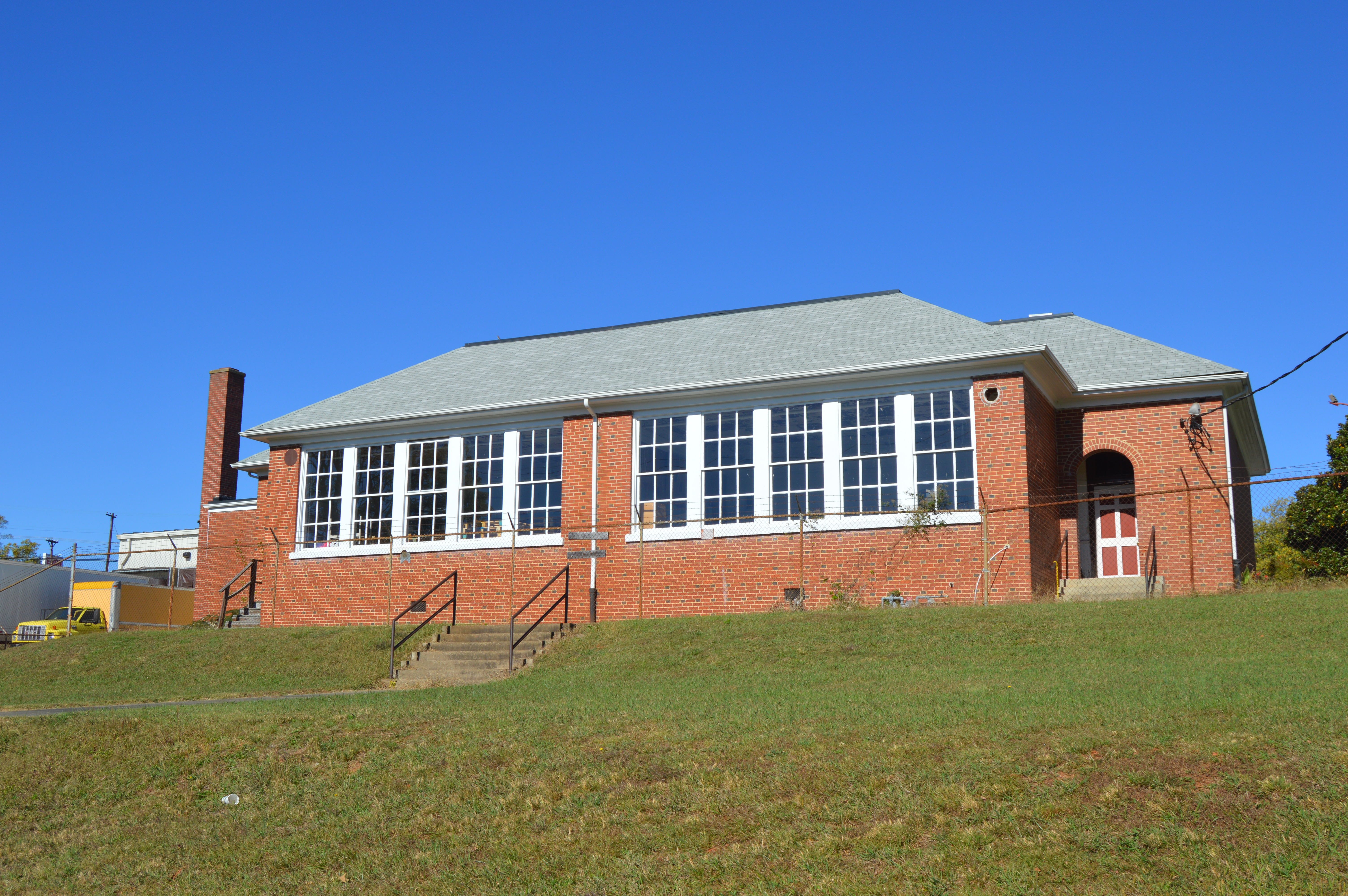 Front and eastern end of the Dry Bridge School, located at 1005 Jordan Street in Martinsville, Virginia, United States. Built in 1928, it is listed on the National Register of Historic Places.